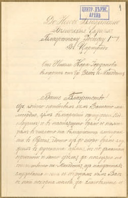 Nikola_Karayordanov_Letter to Joseph I